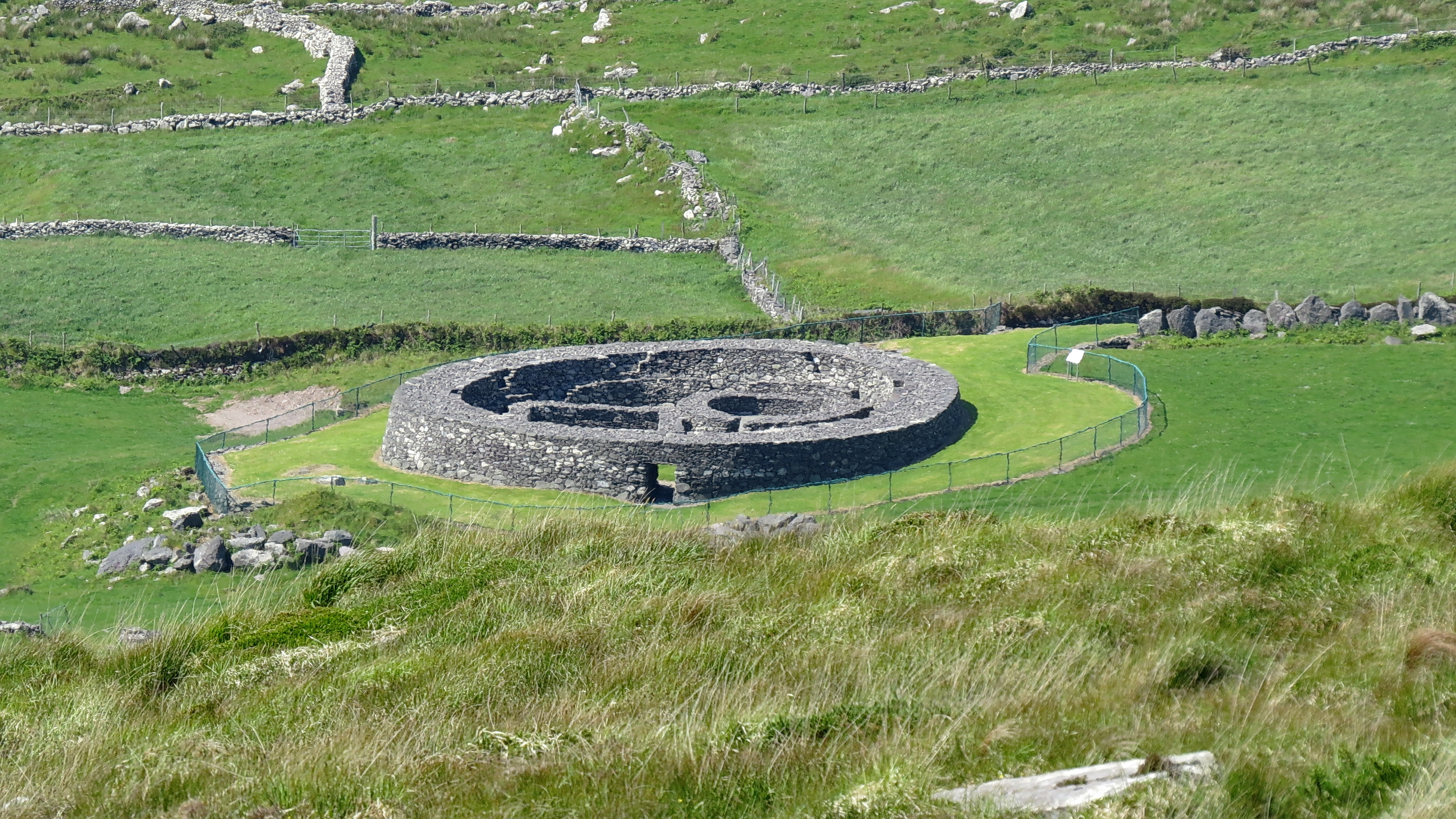 Loher Stone Fort, Ring of Kerry, Co. Kerry, Ireland